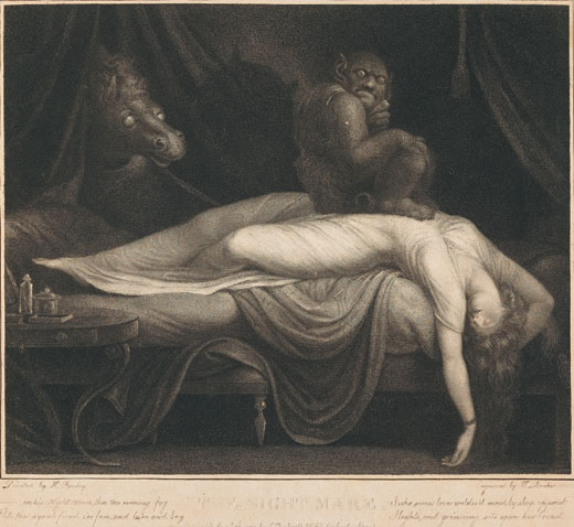 Stipple engraving by Thomas Burke (1749−1815) of The Nightmare, by Johann Heinrich Füssli. Collection of Tate Britain. Original 1781 Füssli painting is in the collection of the Detroit Institute of Arts, U.S.